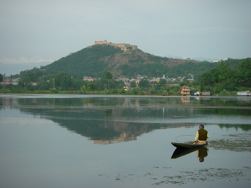 Early fisher on the Nagin Lake in front of the Hari Parbat in Srinagar (Jammu-Kashmir, India)